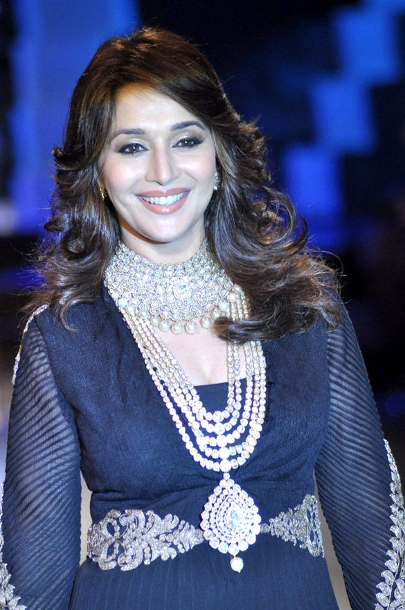 Madhuri Dixit at IIJW 2012